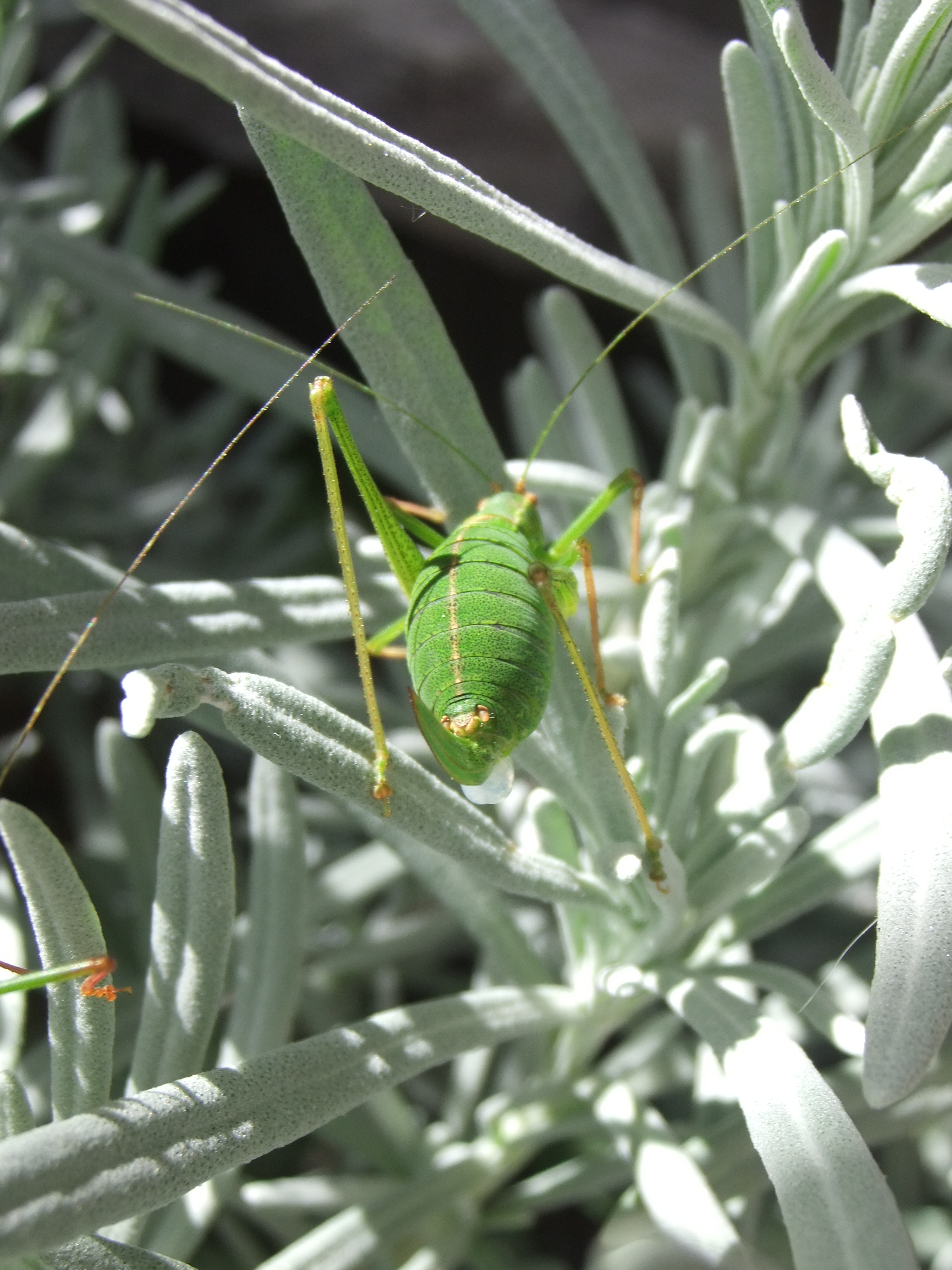 You can see the spermatophore under her ovipositor. The male is just off to the left.